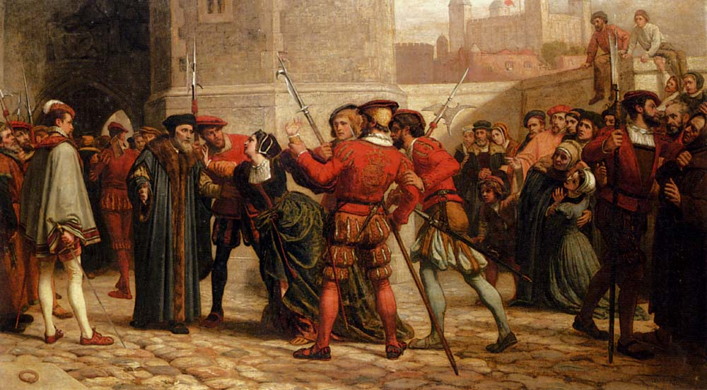 the_meeting_of_sir_thomas_more_with_his_daughter_after_his_sentence_of_death_Painting